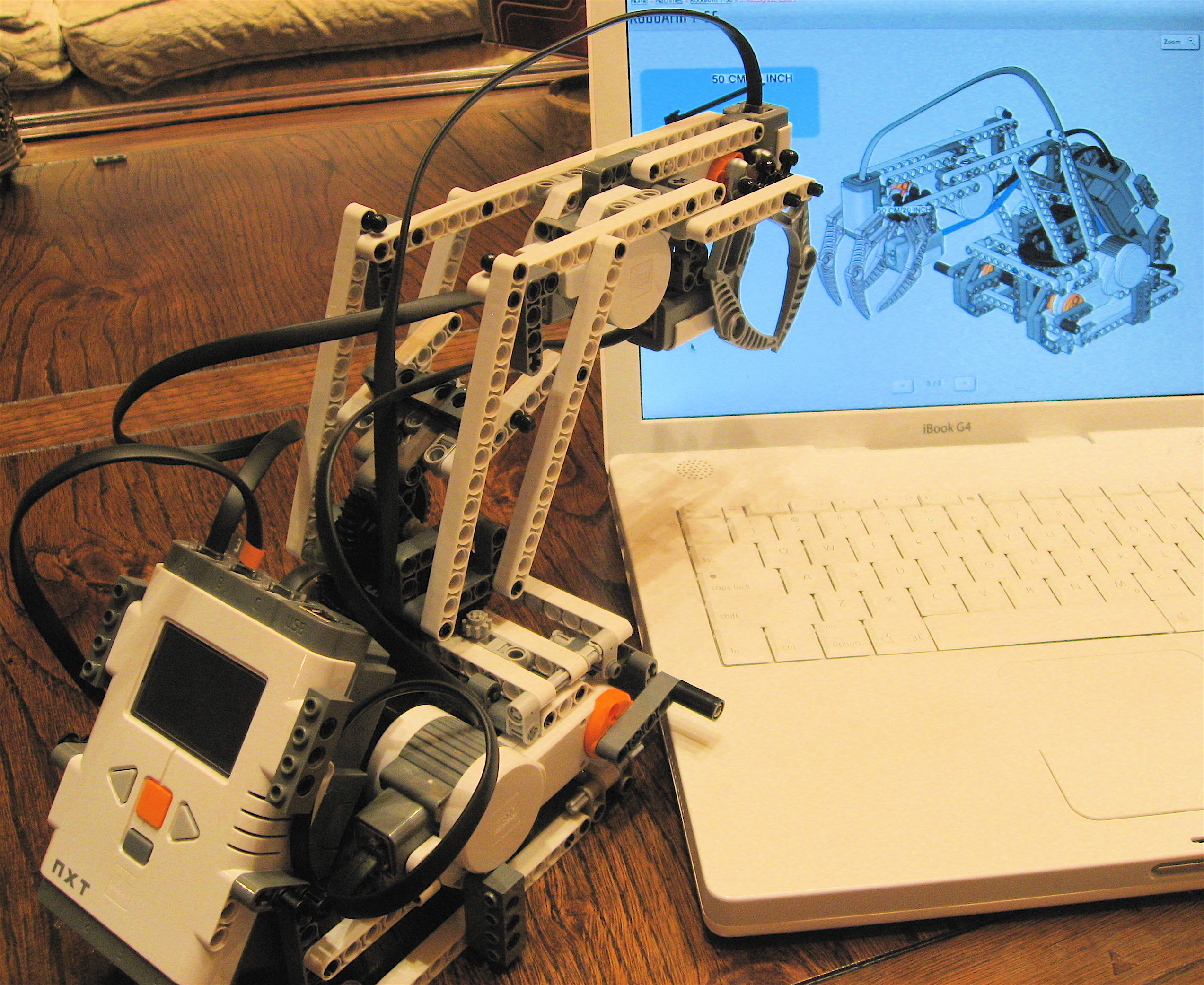 Most animals cannot recognize themselves in a mirror. The exceptions include bonobos, orangutans, chimps, dolphins, elephants, and humans… some of the greatest hits of evolution. Psychologists have pondered the implications on consciousness of a neural basis of self-awareness. But I have not seen a discussion as to why and how this capability has evolved. Do you know of a discussion of this topic? It’s not mentioned on wikipedia. Except for a narcissistic glance into a still pond, most animals have not evolved in the presence of mirrors or smooth reflective surfaces. And it’s particularly tricky for the underwater dolphins. Why might self-recognition be important to the propagation of certain species? It seems to me that the key is not the recognition of self, but the recognition of offspring. Facial recognition of ones children in a social grouping seems like a differential advantage for long-term child rearing and protection. Other perceptual paths have been pursued, and suffice in certain contexts. Scent requires proximity, and seems to be easily masked in some cases (e.g., handling chicks leading to rejection by the mother bird). Penguins identify their young in the herd by the sound of their chirp (has the accuracy of that been tested?) Perhaps the mirror self-recognition phenomenon could be more accurately called facial progeny perception, with the recognition of self just an incidental byproduct.